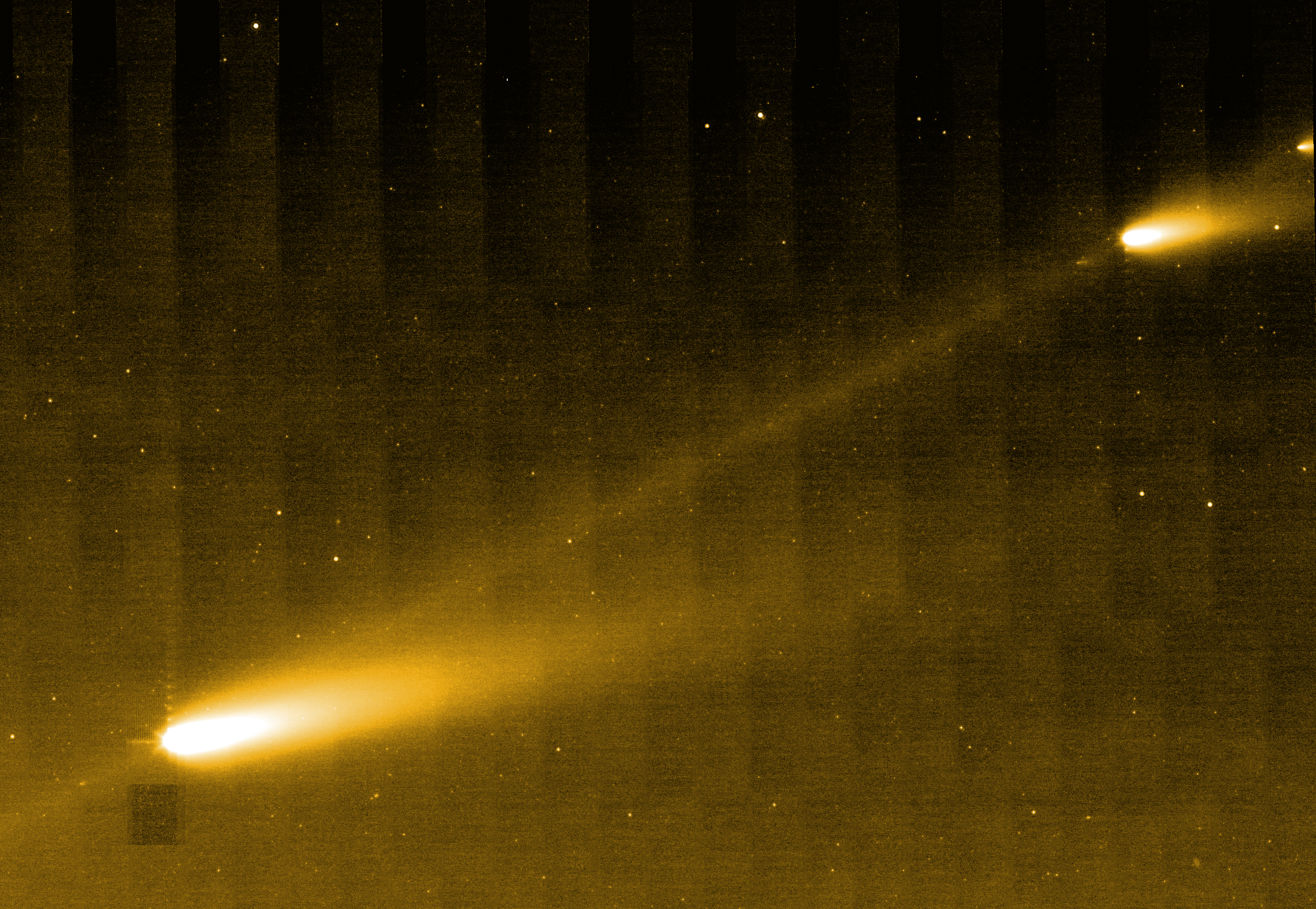 This image from NASA's Spitzer Space Telescope shows three of the many fragments making up Comet 73P/Schwassman-Wachmann 3. The infrared picture also provides the best look yet at the crumbling comet's trail of debris, seen here as a bridge connecting the larger fragments. The comet circles around our sun every 5.4 years. In 1995, it splintered apart into four pieces, labeled A through D, with C being the biggest. Since then, the comet has continued to fracture into dozens of additional pieces. This image is centered about midway between fragments C and B; fragment G can be seen in the upper right corner. The comet's trail is made of dust, pebbles and rocks left in the comet's wake during its numerous journeys around the sun. Such debris can become the stuff of spectacular meteor showers on Earth. This image was taken on April 1, 2006, by Spitzer's multi-band imaging photometer using the 24-micron wavelength channel.